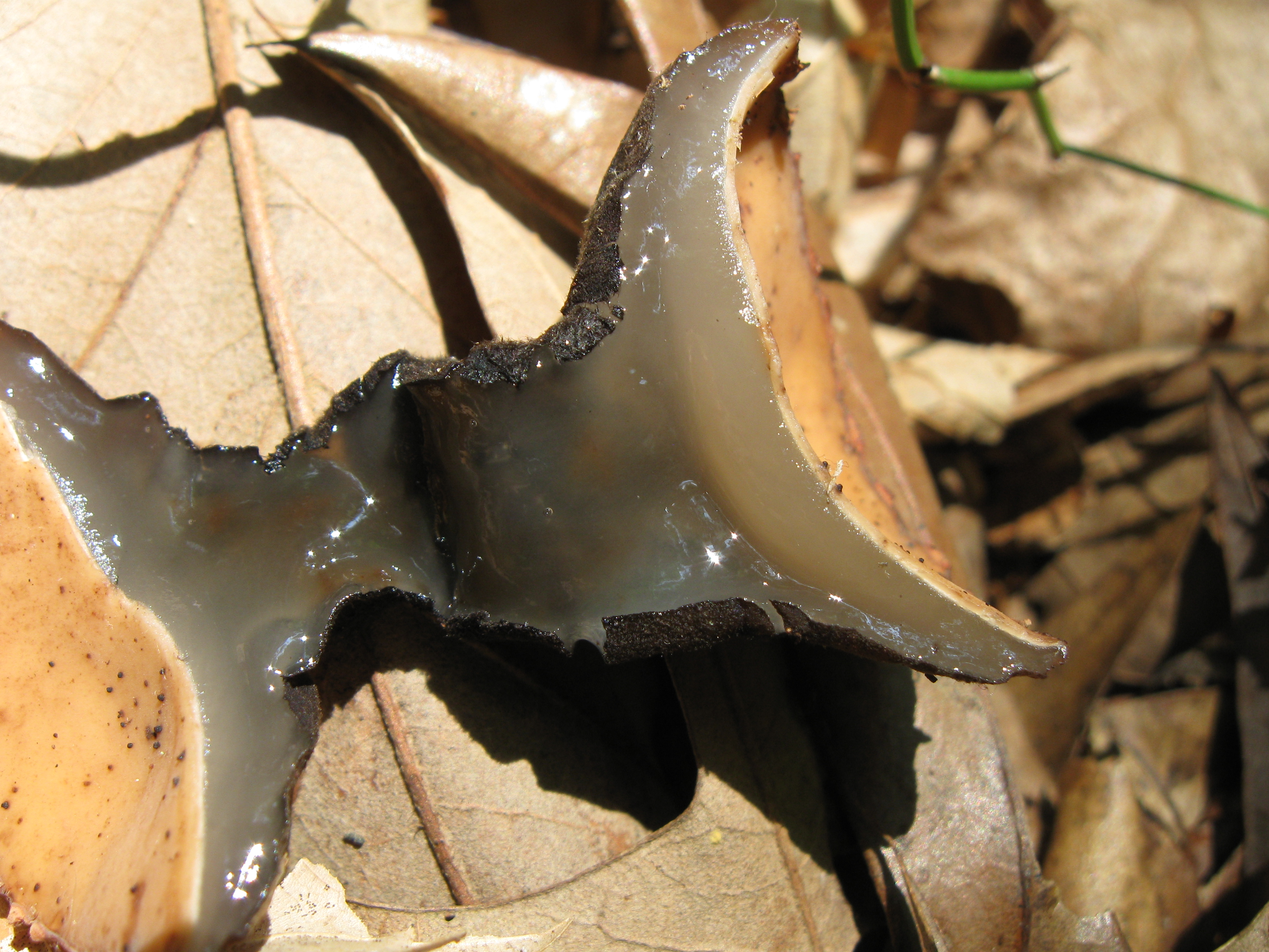 Cross-section of the fruit body of the cup-fungus Galiella rufa (Schwein.) Nannf. & Korf. Specimen found in Rock Island State Park, Warren Co., Tennessee, USA.